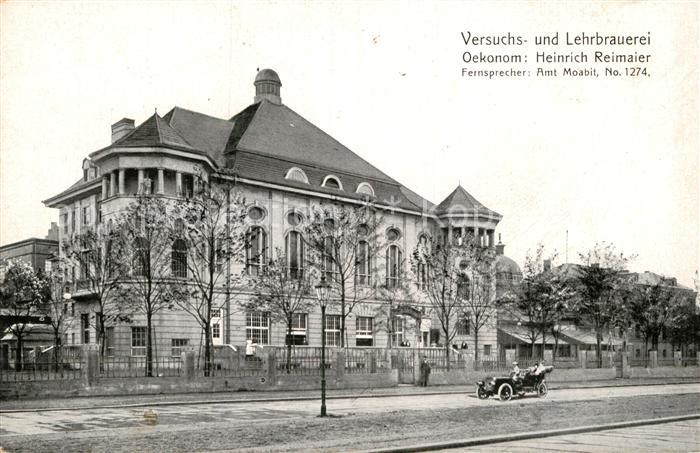 postcard Berlin Versuchs- Lehrbrauerei postalisch nicht gelaufen bis 1920